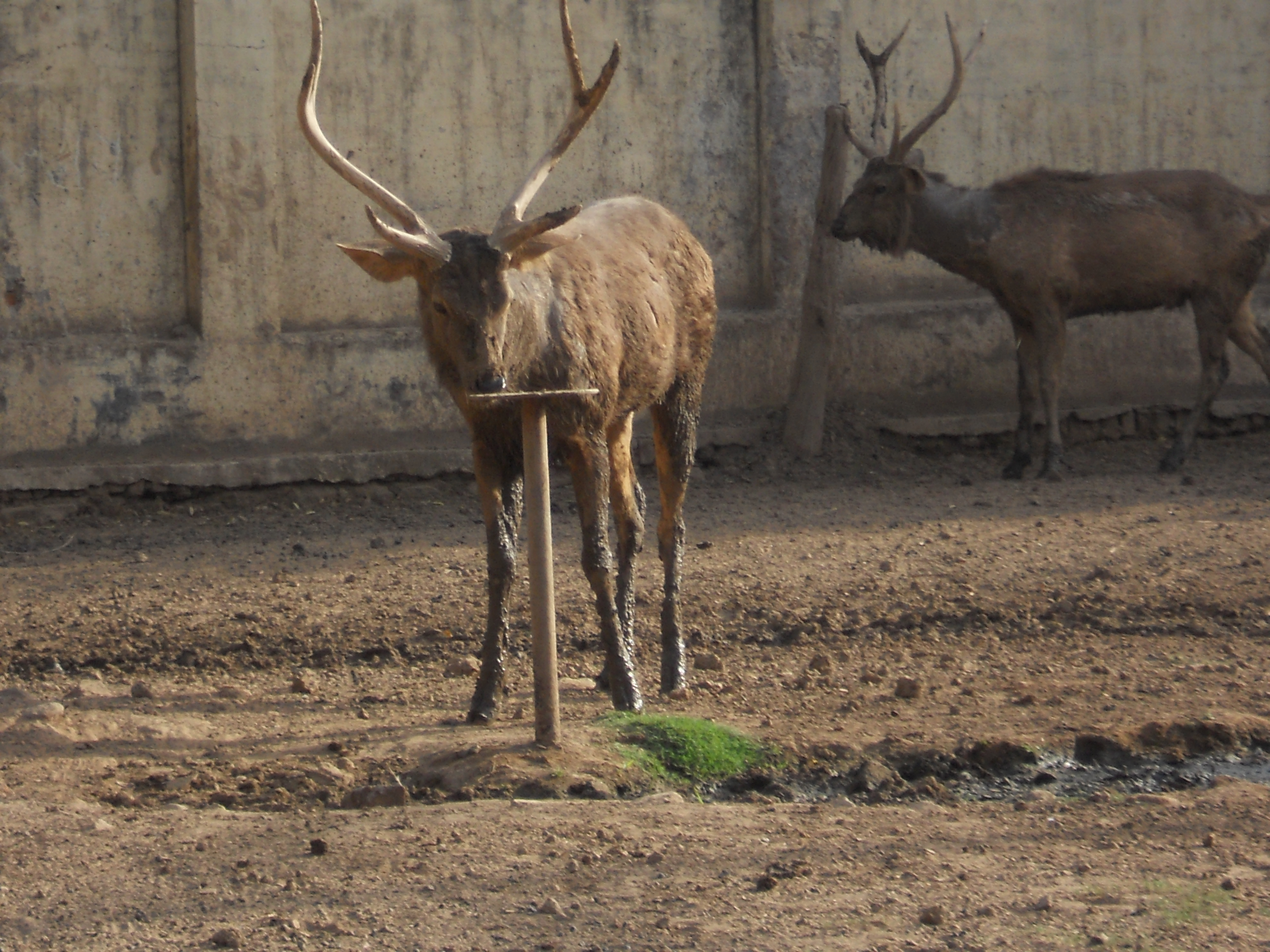 Gwalior zoo at its best